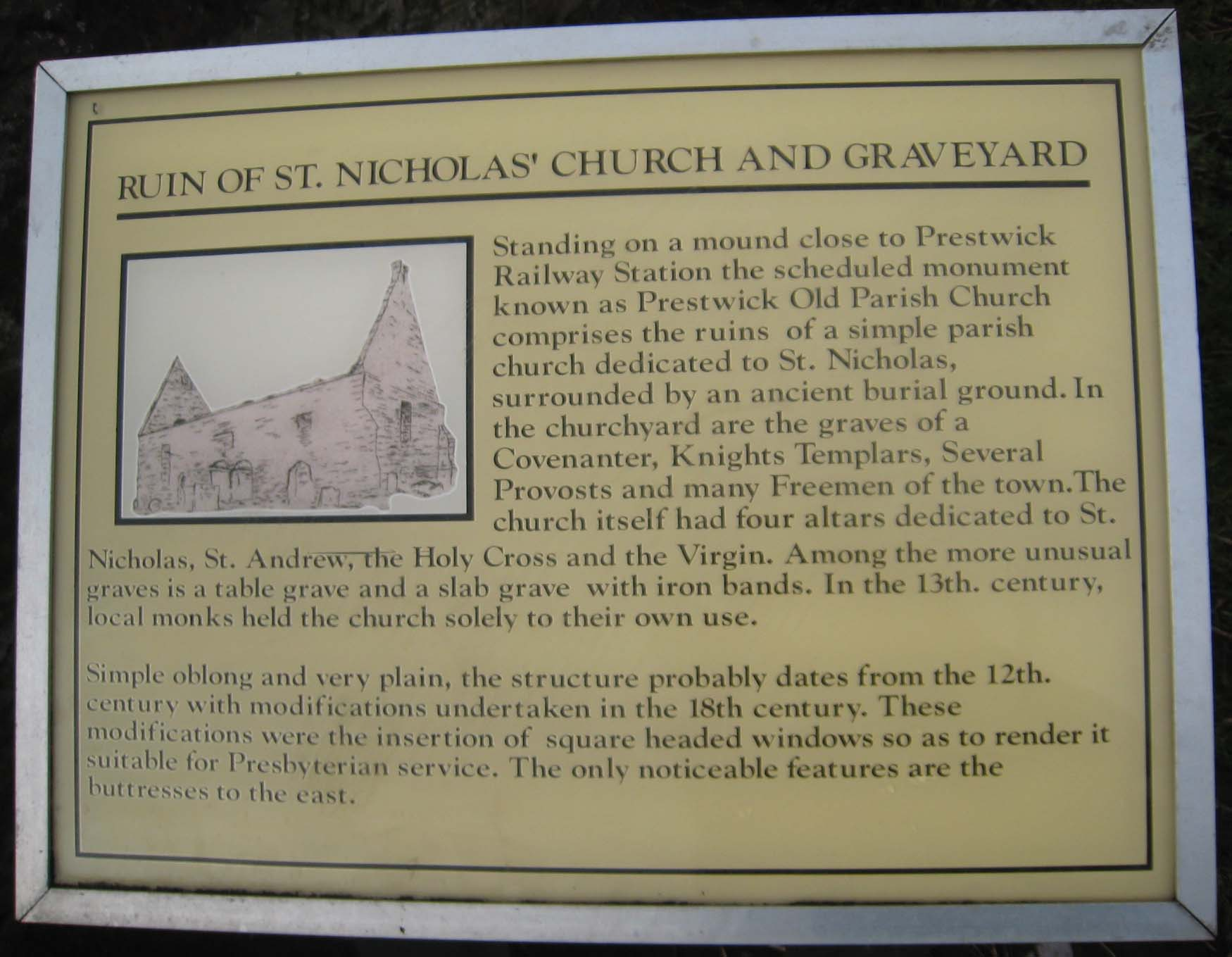 Sign about the old ruined church of St Nicholas in Prestwick, Scotland